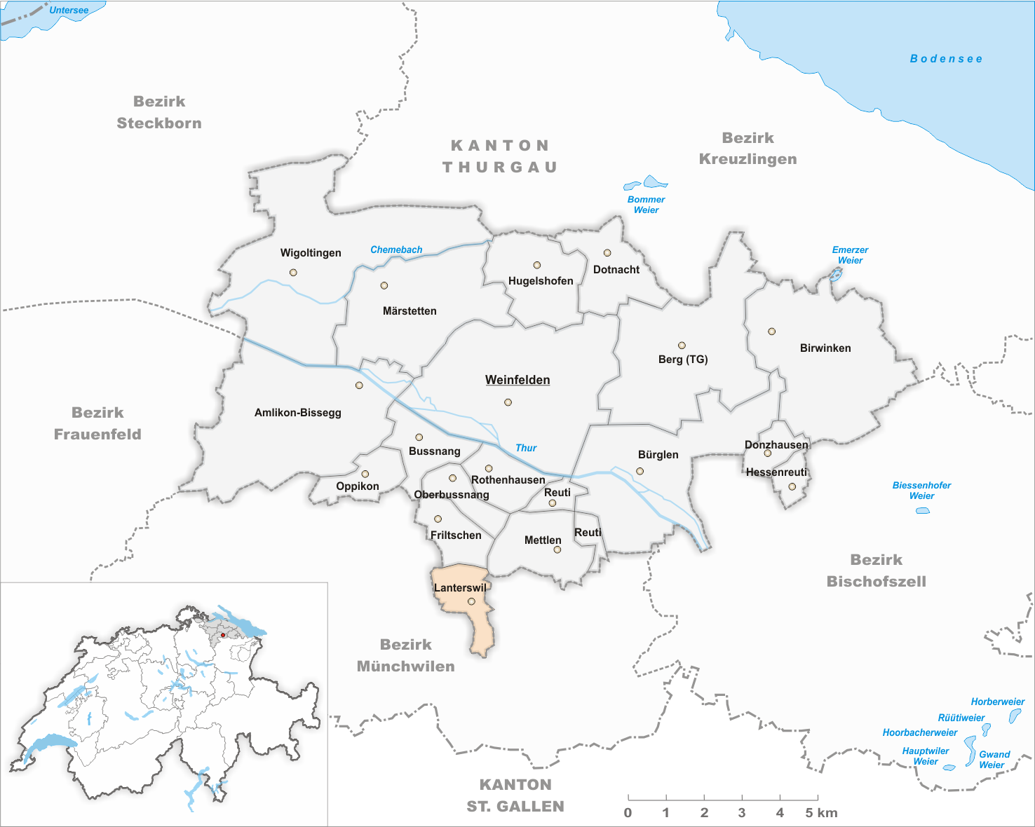 Municipality Lanterswil